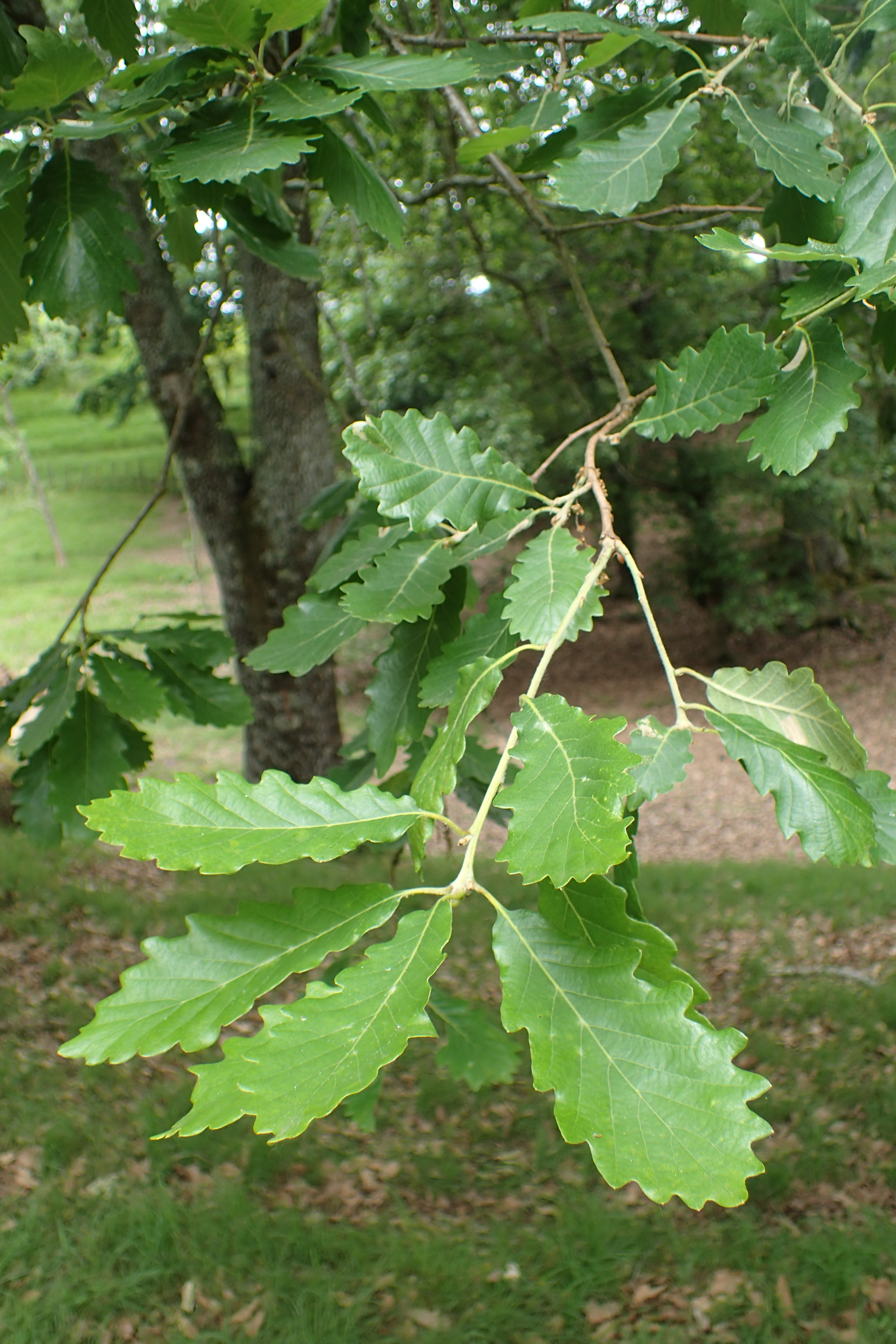 Quercus canariensis in Hackfalls Arboretum, Hawkes's Bay, NZ